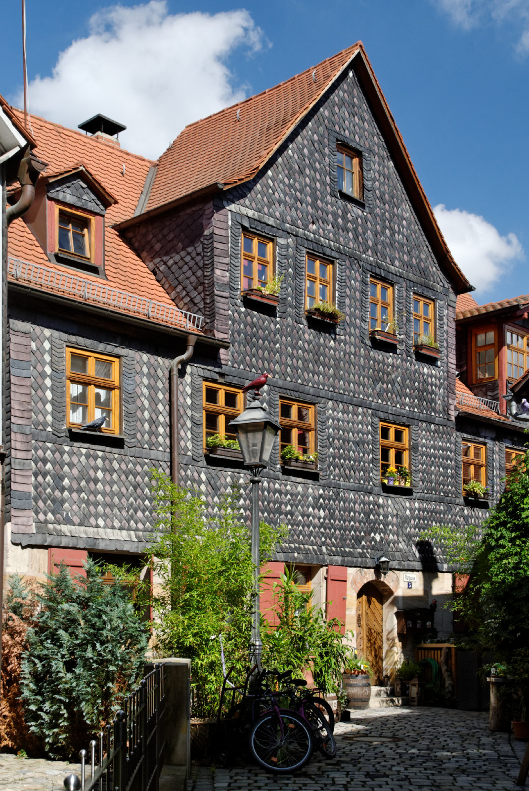 House Pfarrgasse 5 in Fürth, Germany